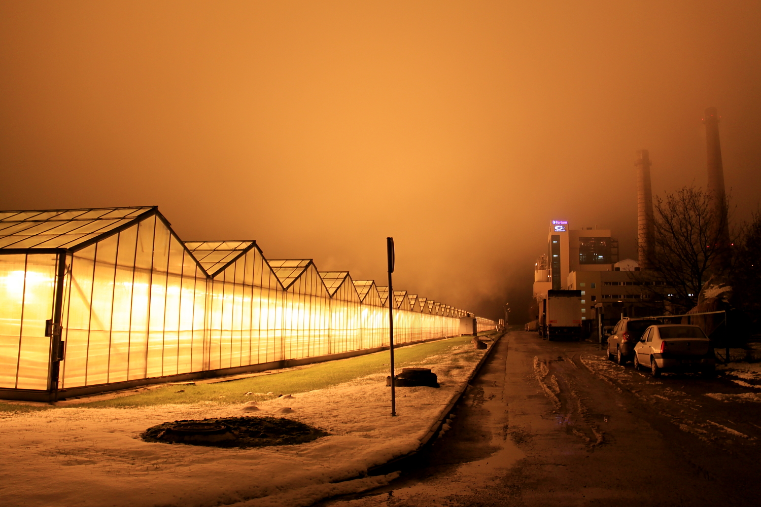 Lohkva